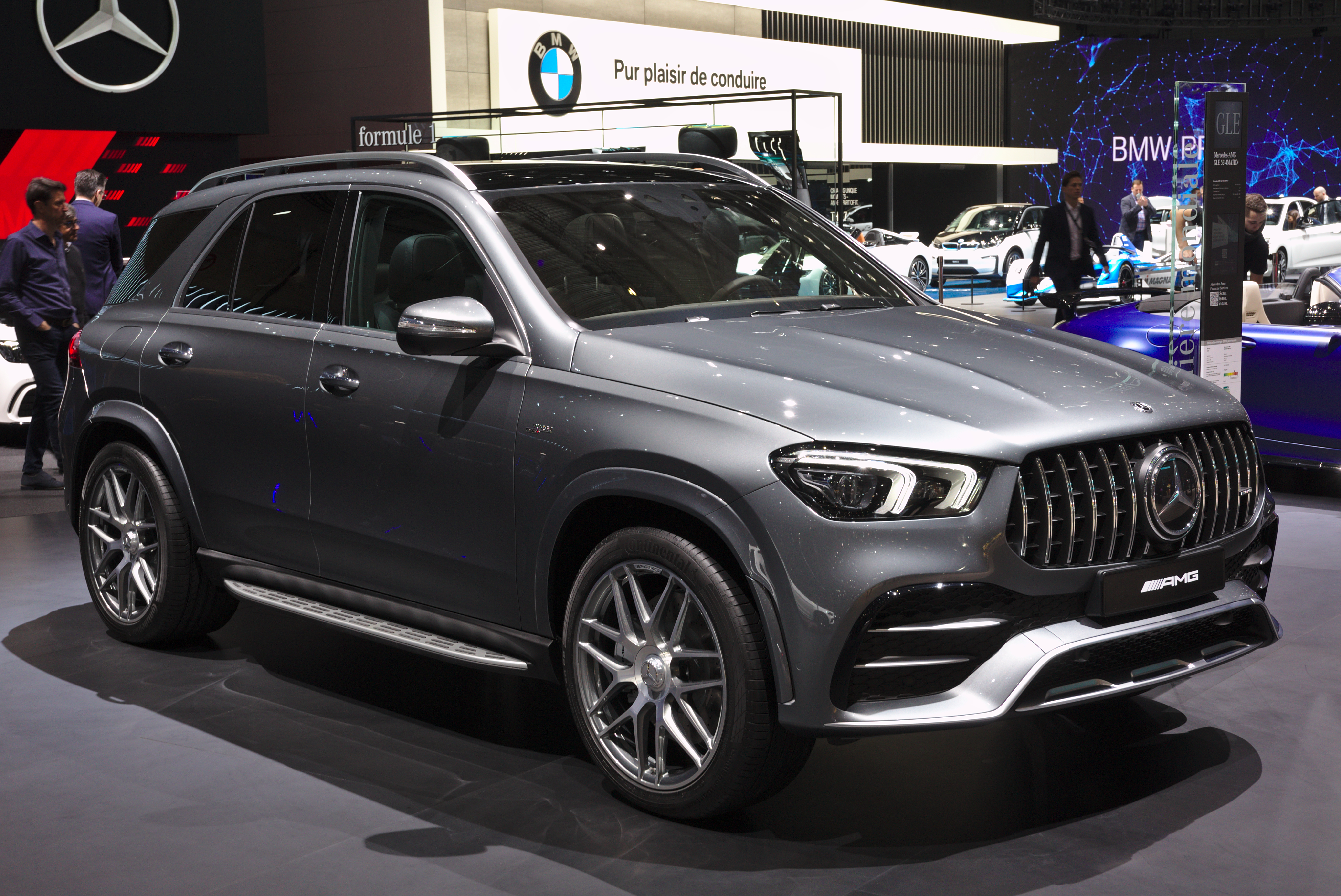 Mercedes-AMG GLE 53 4Matic at Geneva Motor Show 2019